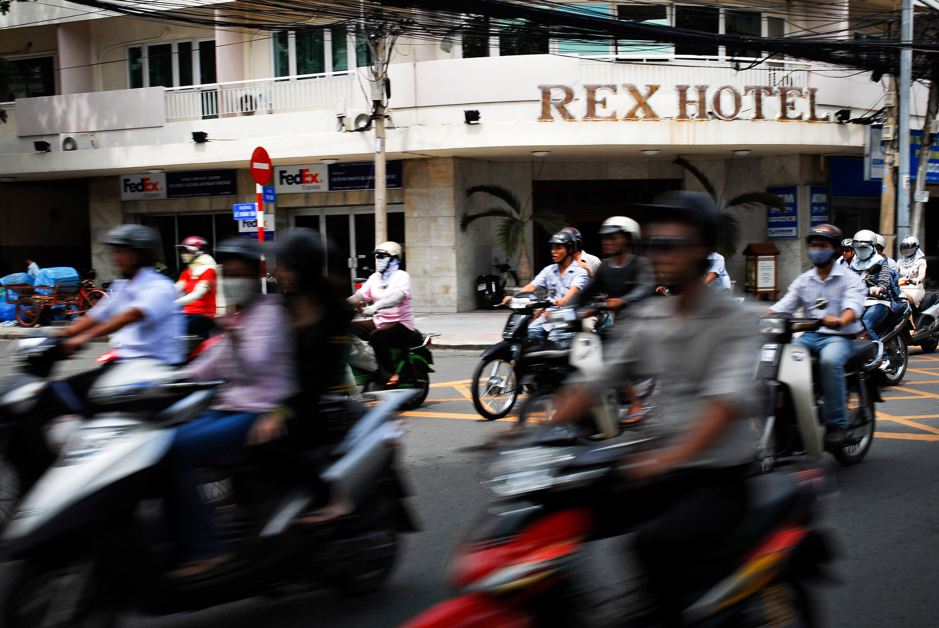 Facade of the legendary "Rex Hotel", through the busy city streets. Ho Chi Minh City (former Saigon). Vietnam.